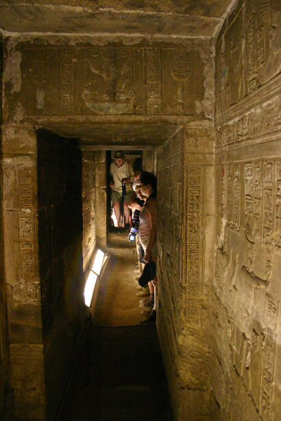 Temple of Denderah. Image taken by Alex Lbh in April 2005.